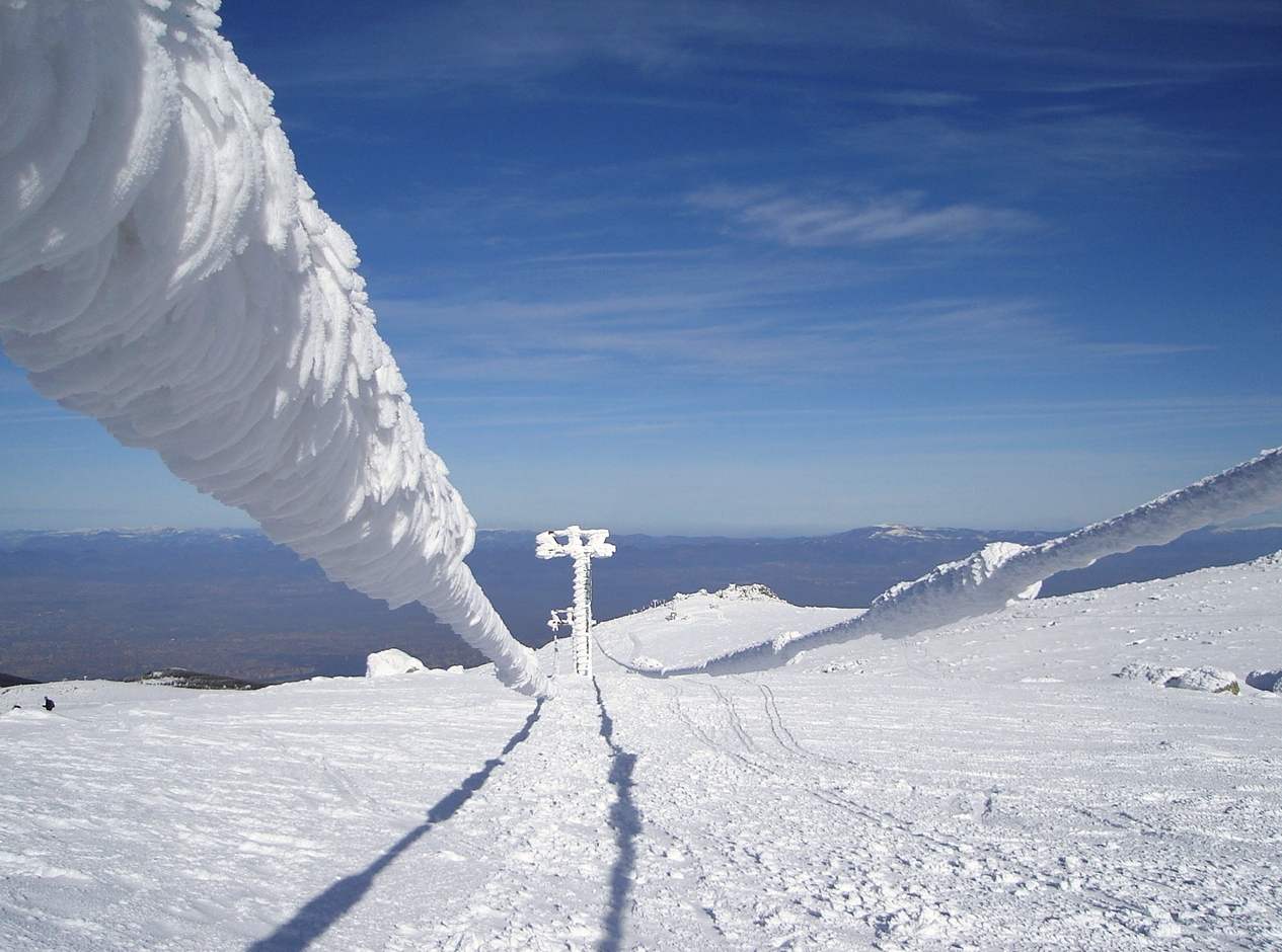 Ski run on the northern slope of the summit Cherni Vrah, Vitosha Mountain, Bulgaria. Photograph by Nikolay Rainov published in under Creative Commons license 2.5.